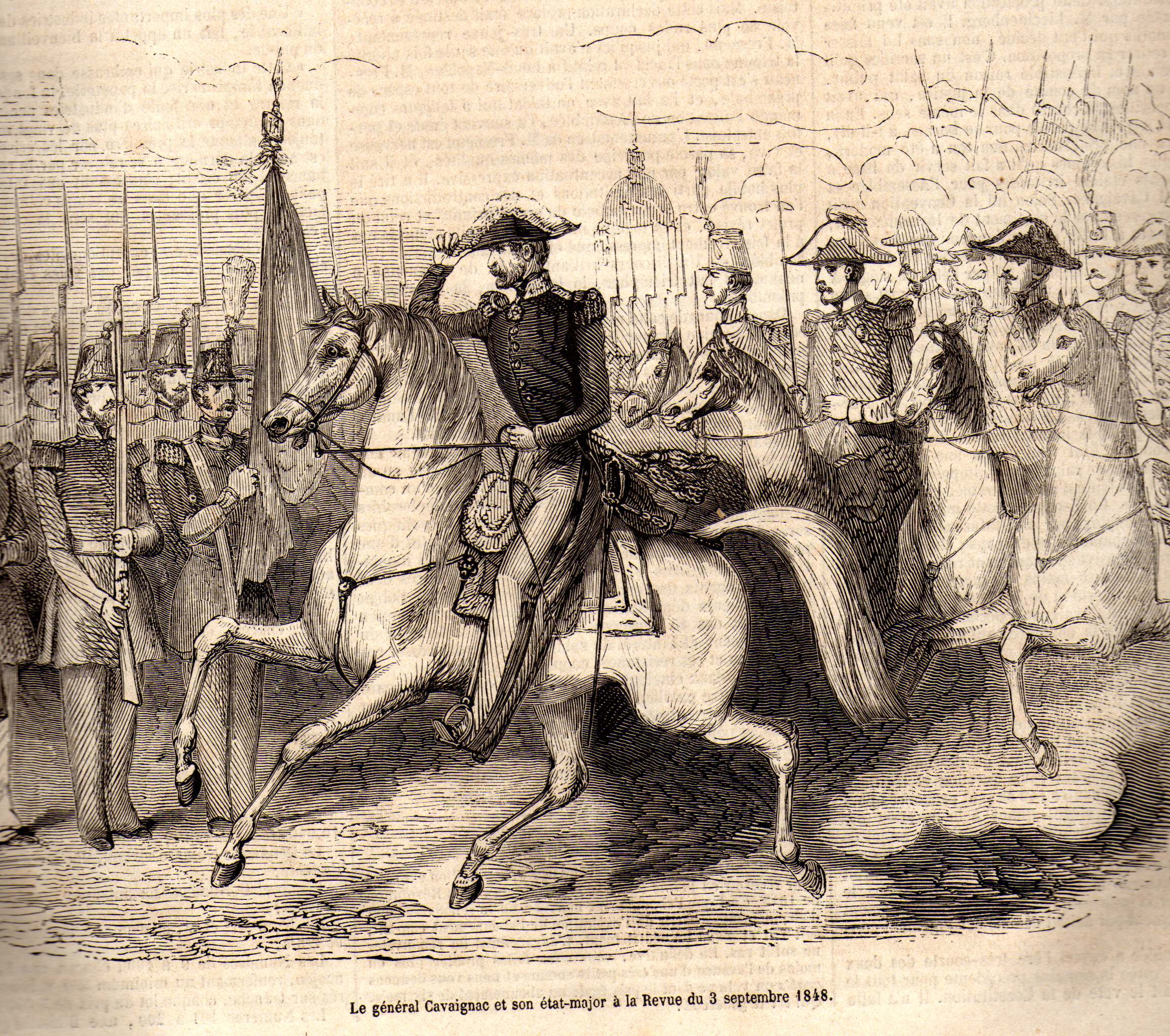 General Cavaignac and his general staff at the military review of 3rd september 1848